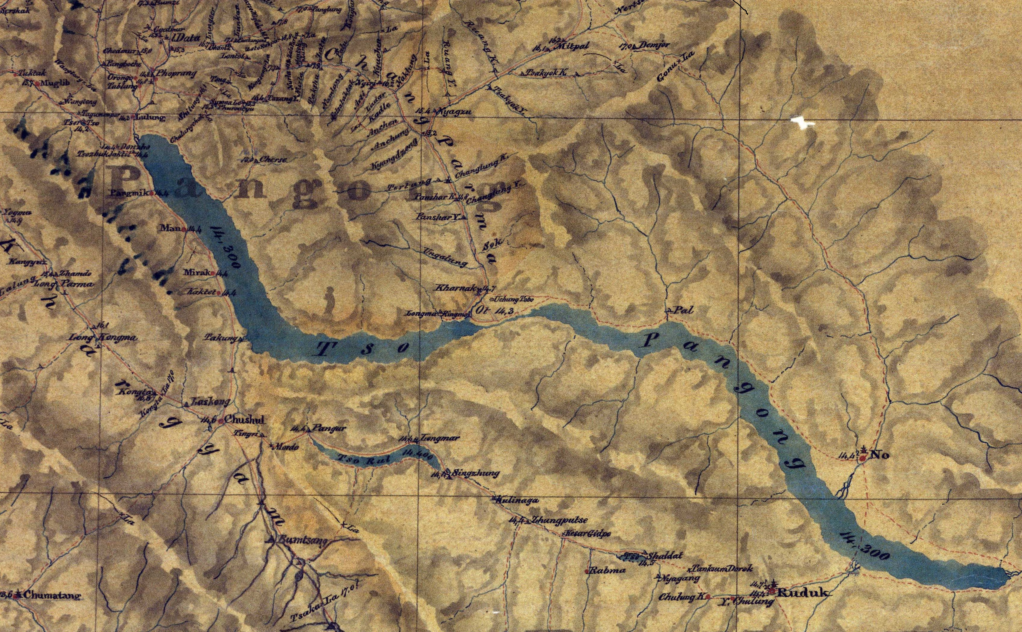 This is the first detail map of Pangong Lake area